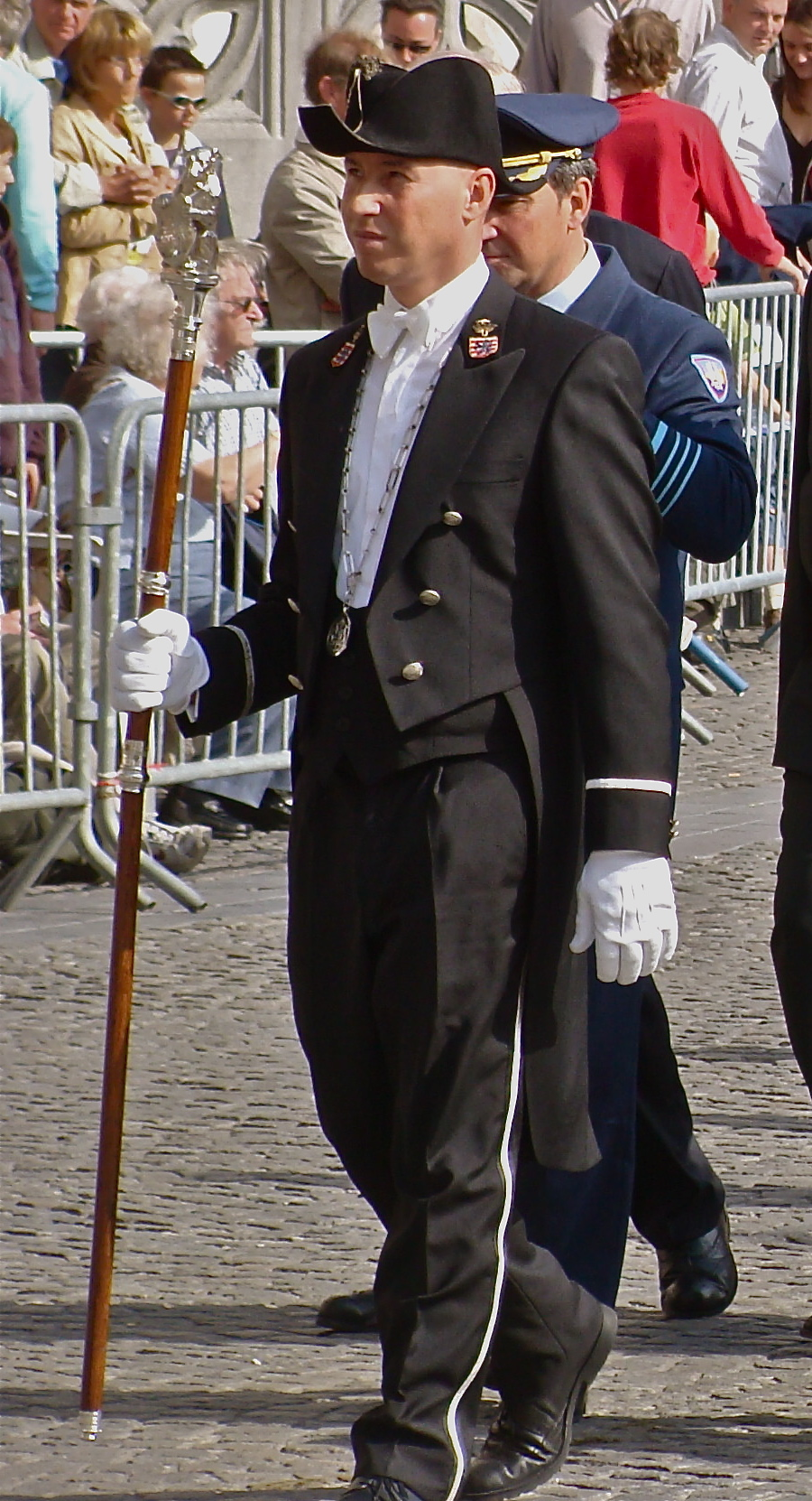 Participant in the Holy Blood Procession in Brughes, Belgium, wearing a morning coat and bicorne hat, and carrying a processional pole.